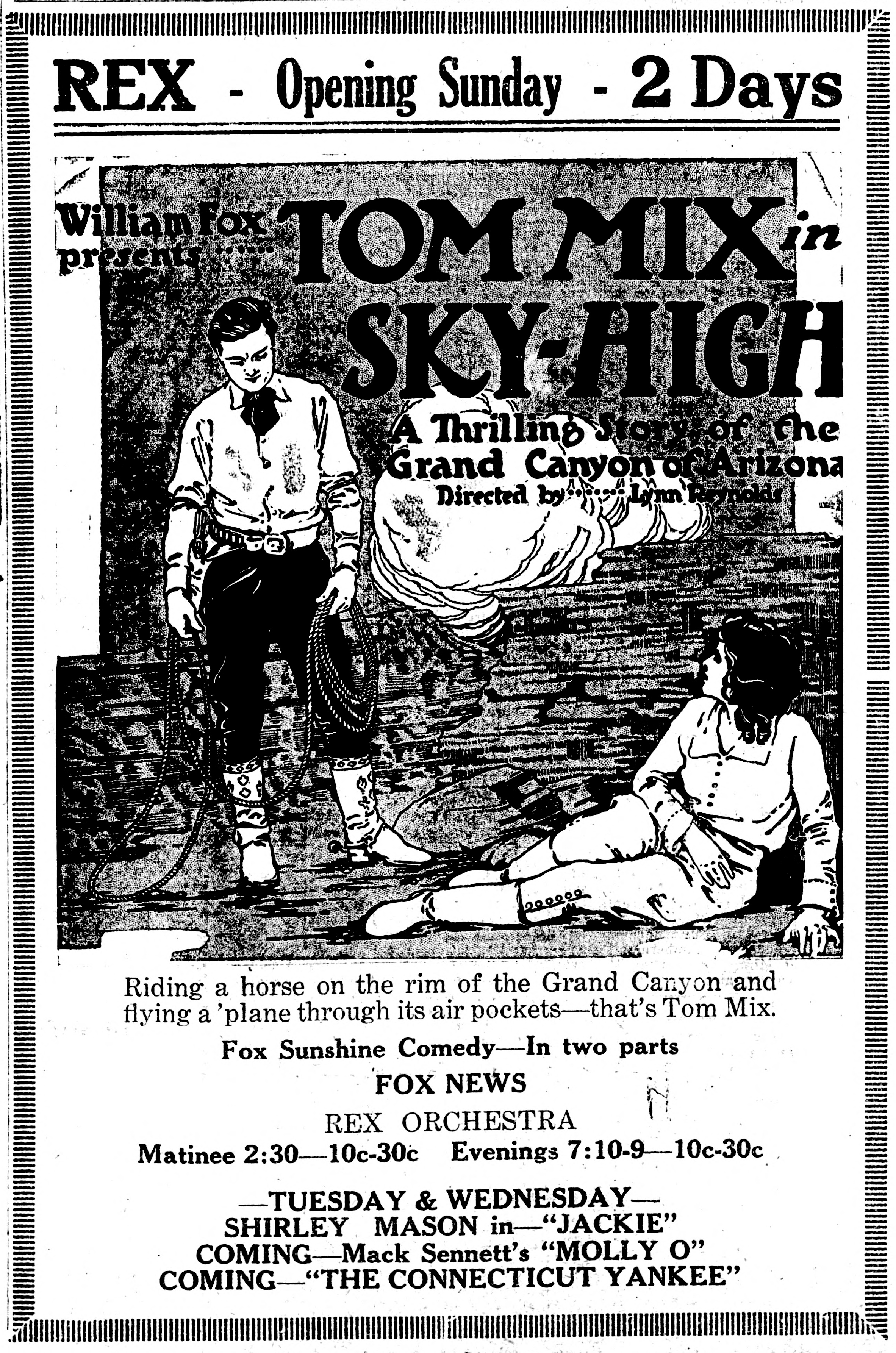 Sky High is a 1922 American silent film written and directed by Lynn Reynolds and starring Tom Mix, J. Farrell MacDonald, Eva Novak, and Sid Jordan. This is an advertisement for the film from a newspaper.